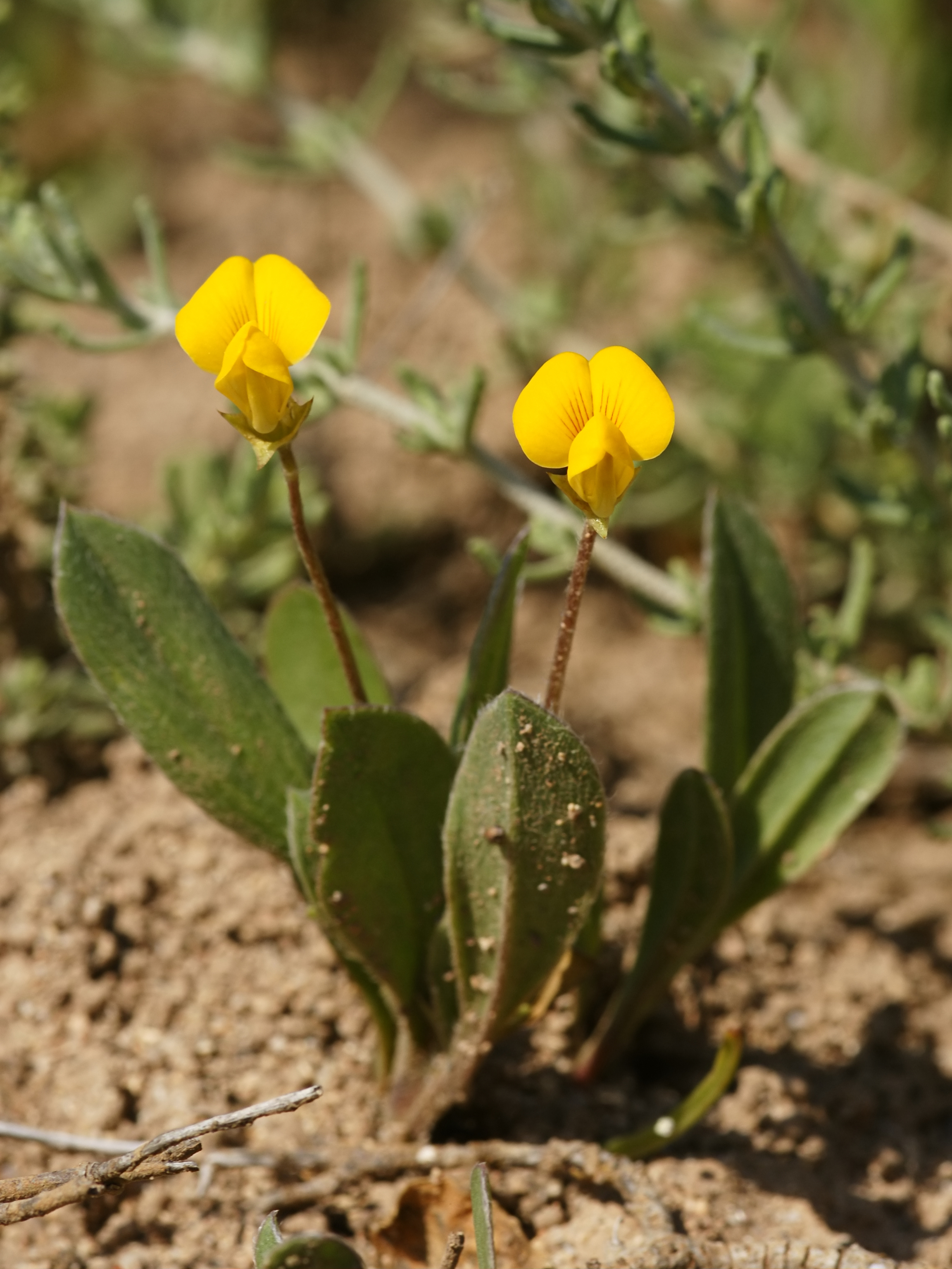 Prickly Scorpions Tail near Cala Ses Salinas, Mallorca.